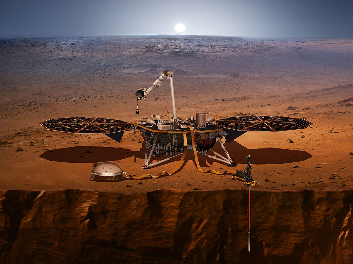 Spacecraft InSight on Mars (artist's view)